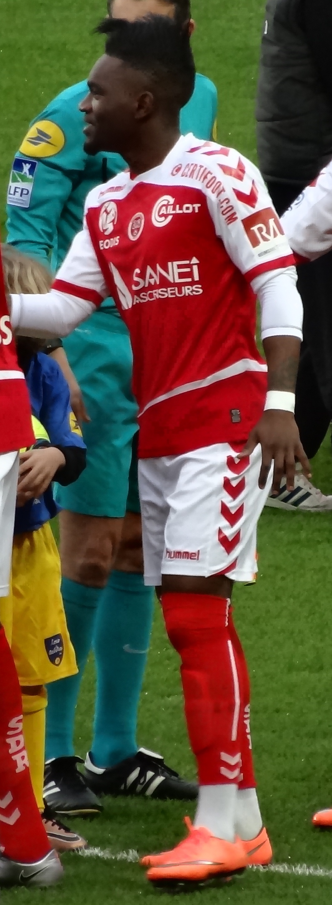 Thievy Bifouma (Reims)